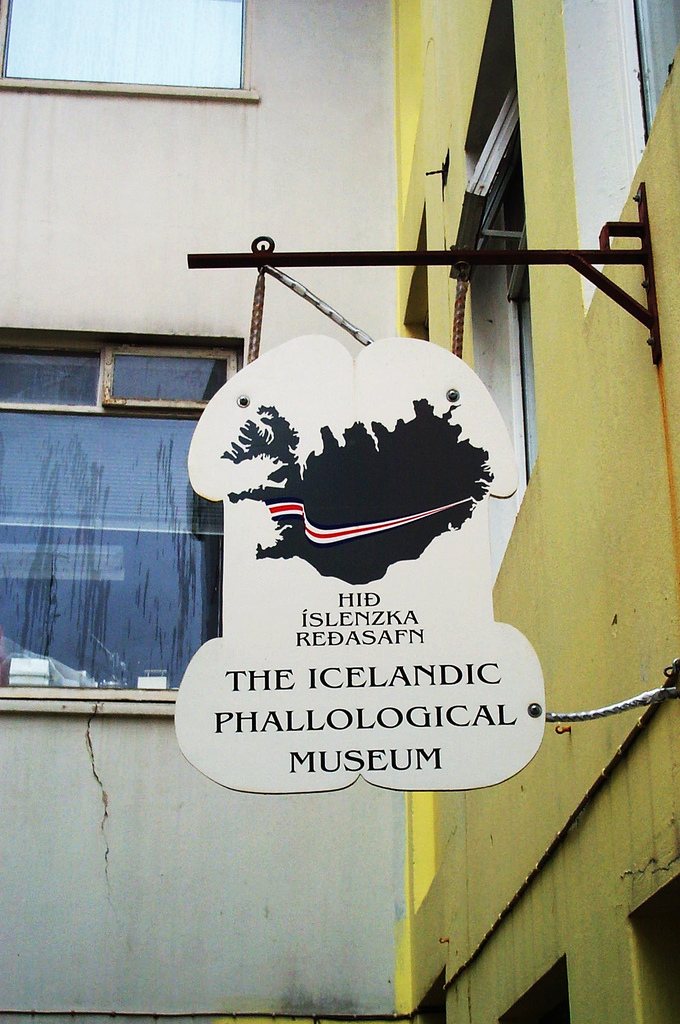 Phallological museum sign